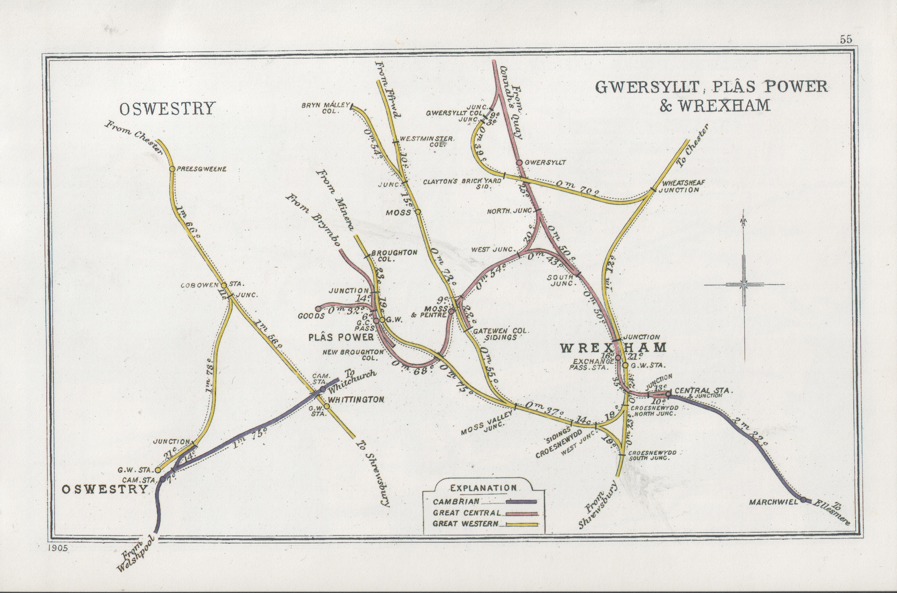 Pre Grouping railway junction around Oswestry; Gwersyllt, Plas Power & Wrexham